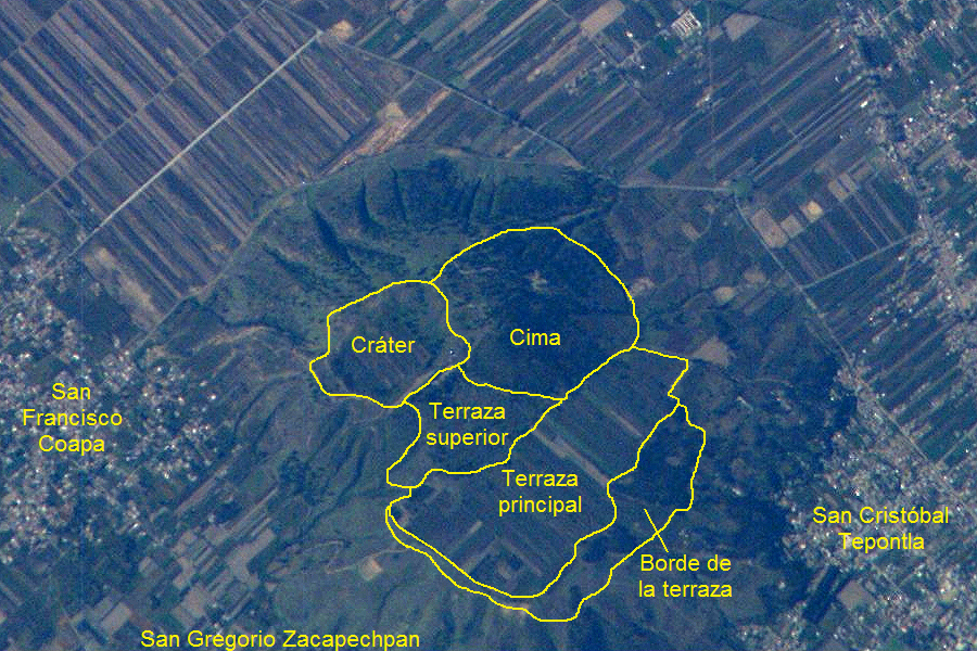 Cerro Zapotecas, a hill outside of Cholula de Rivadavia, Puebla, Mexico.